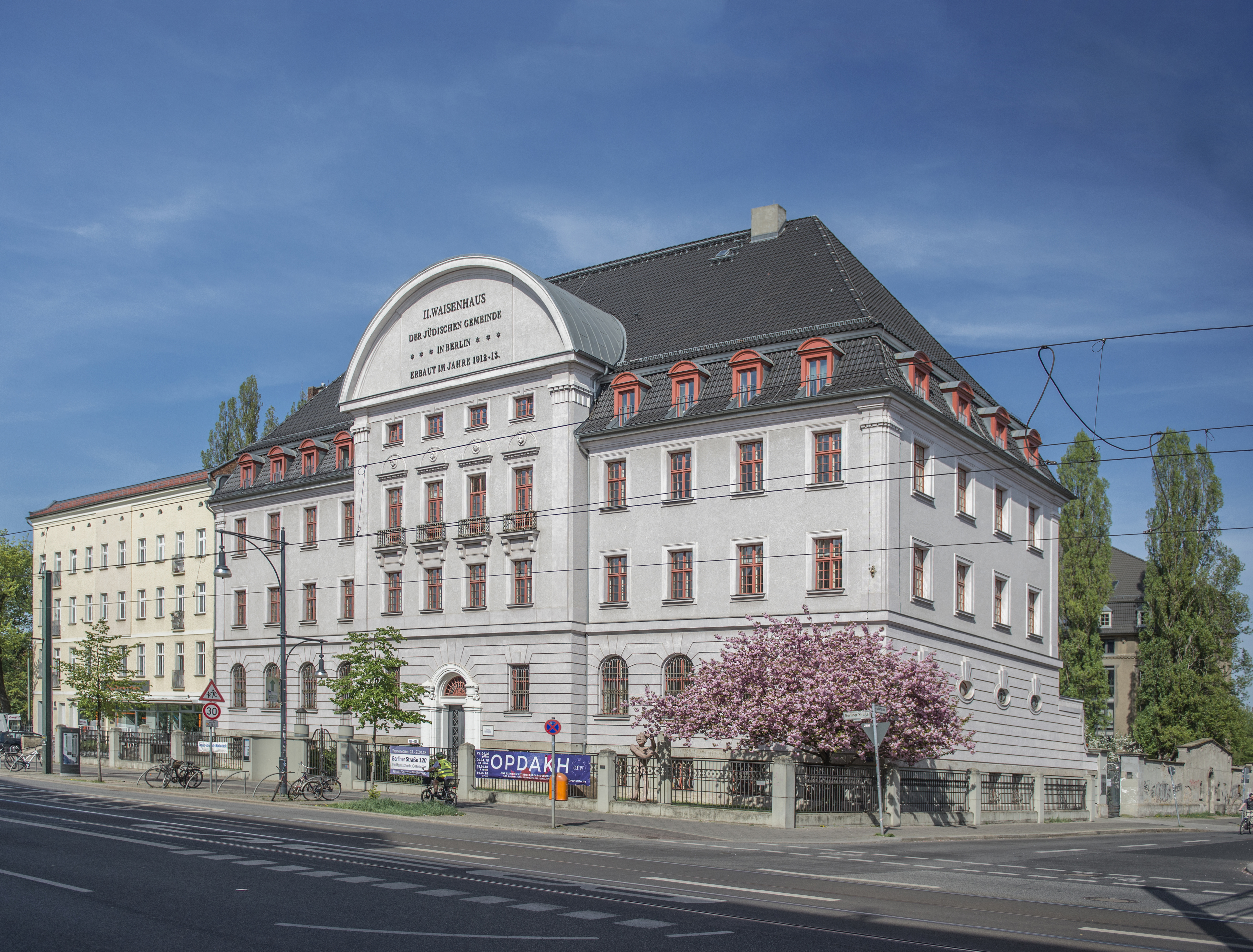 Former Jewish Orphanage Pankow